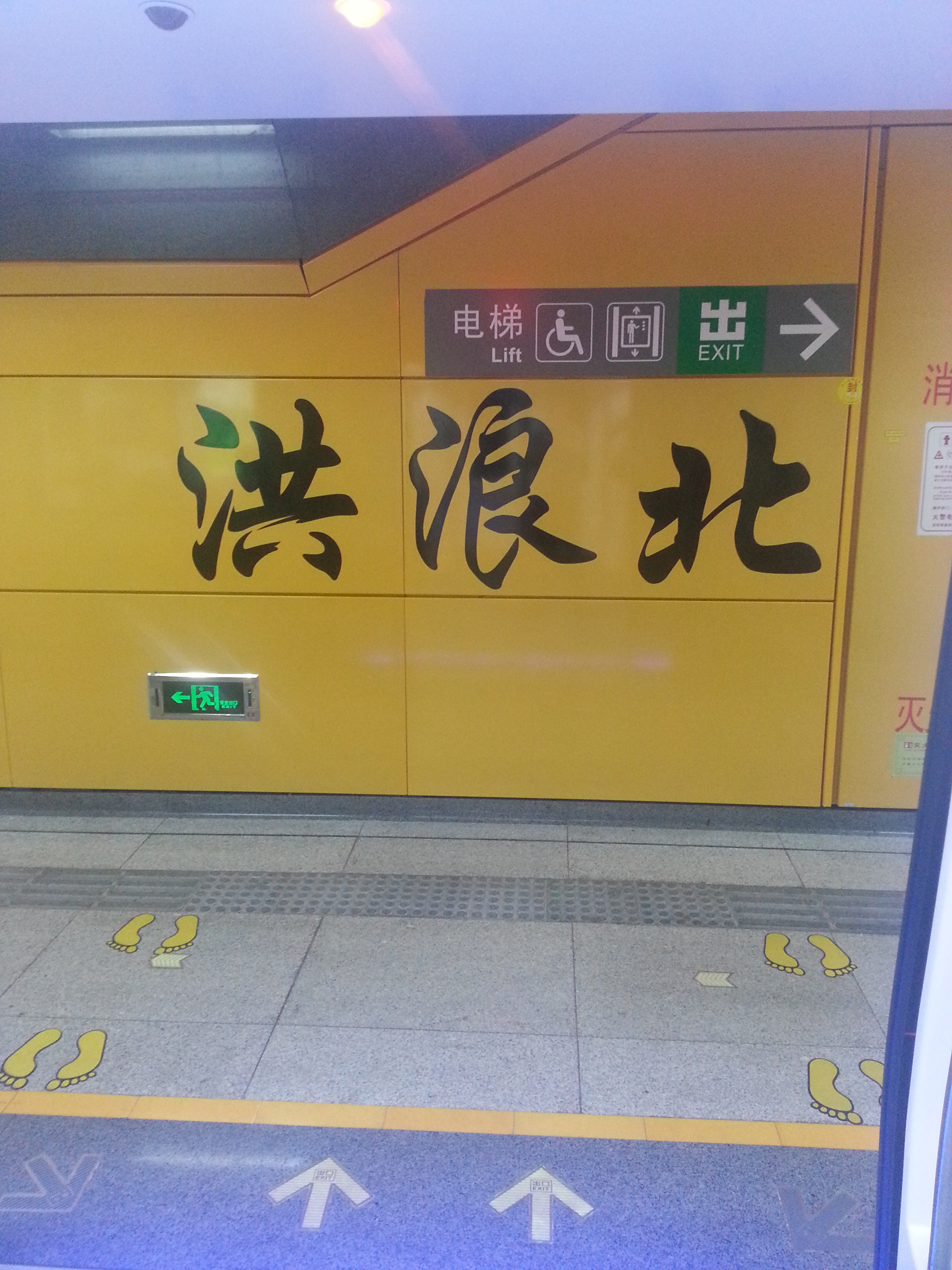 Shenzhen Metro Honglang North Station calligraphy name